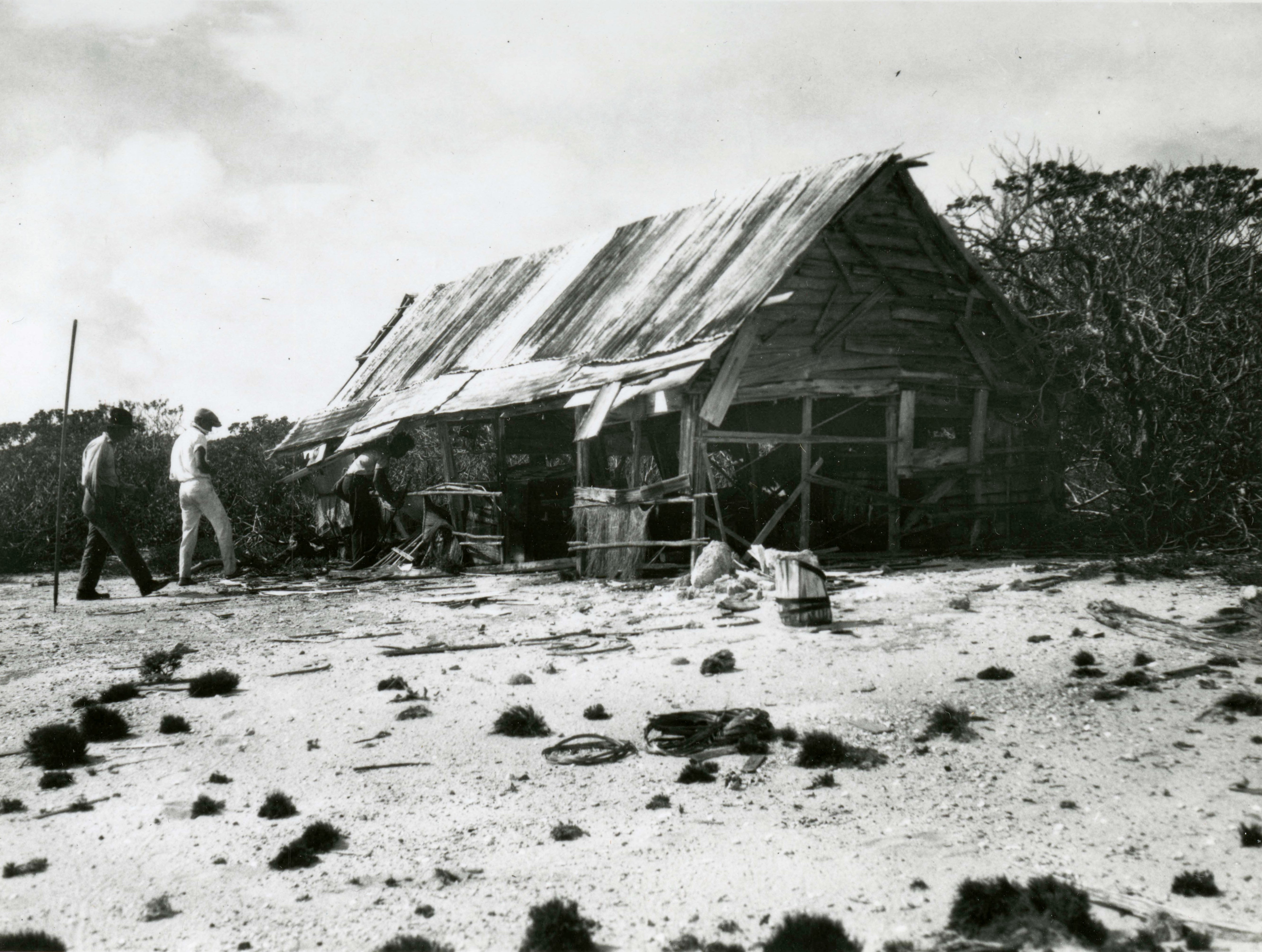 Creator: Alexander Wetmore Local number: SIA2011-0840 Summary: RU 007006, Box 142, Folder 3; Workshop of Japanese feather poachers. Image taken by member of the Tanager Expedition, 1923. Dates: 1923 Repository: Smithsonian Institution Archives Related blog post: Alexander Wetmore Series View more collections from the Smithsonian Institution. .